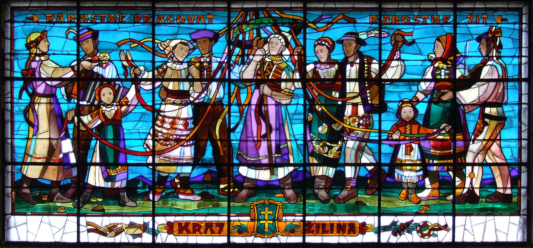 Stained glass in Žilina train station